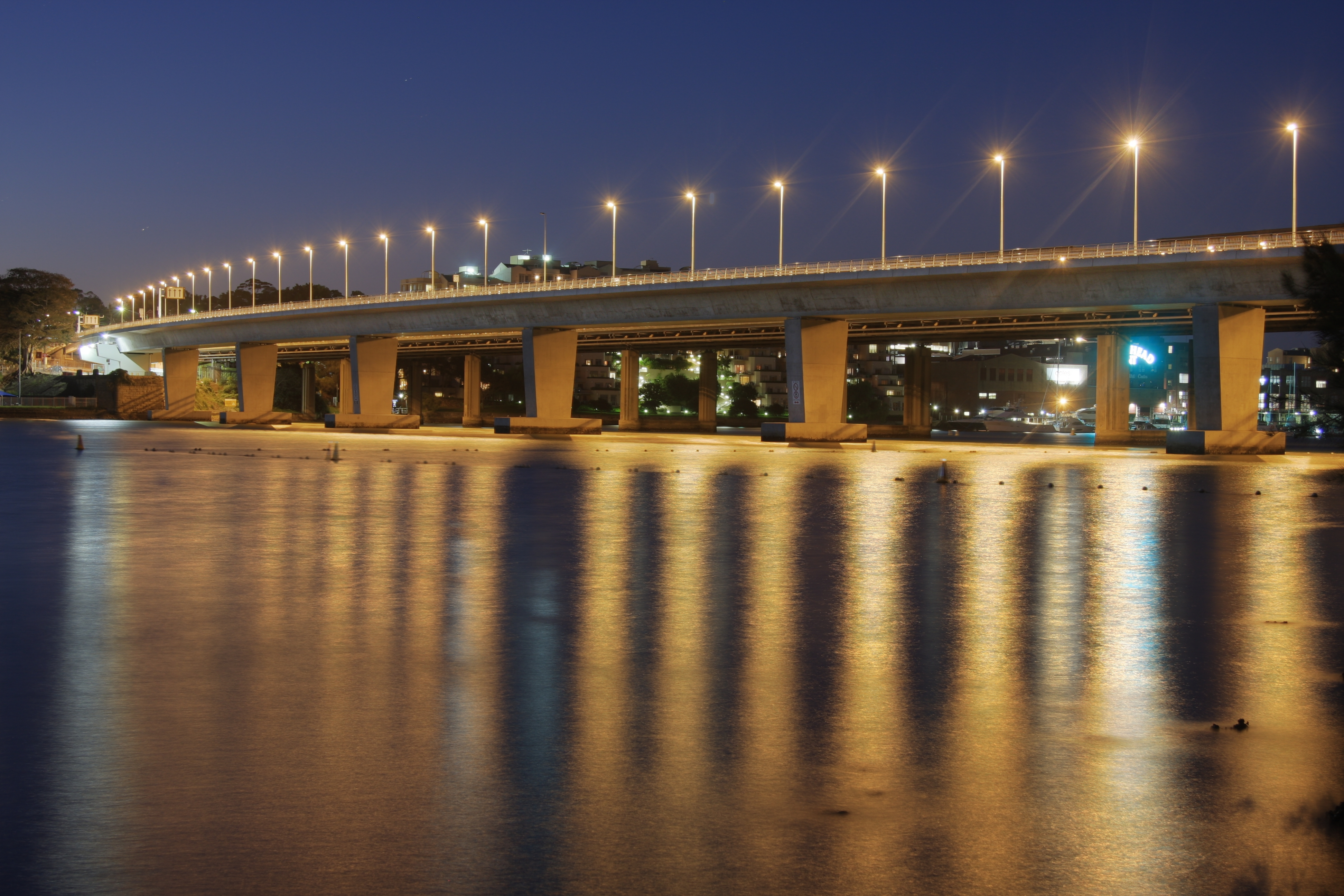 Iron Cove Bridge duplication links the suburbs of Drummoyne to Rozelle in New South Wales, Australia